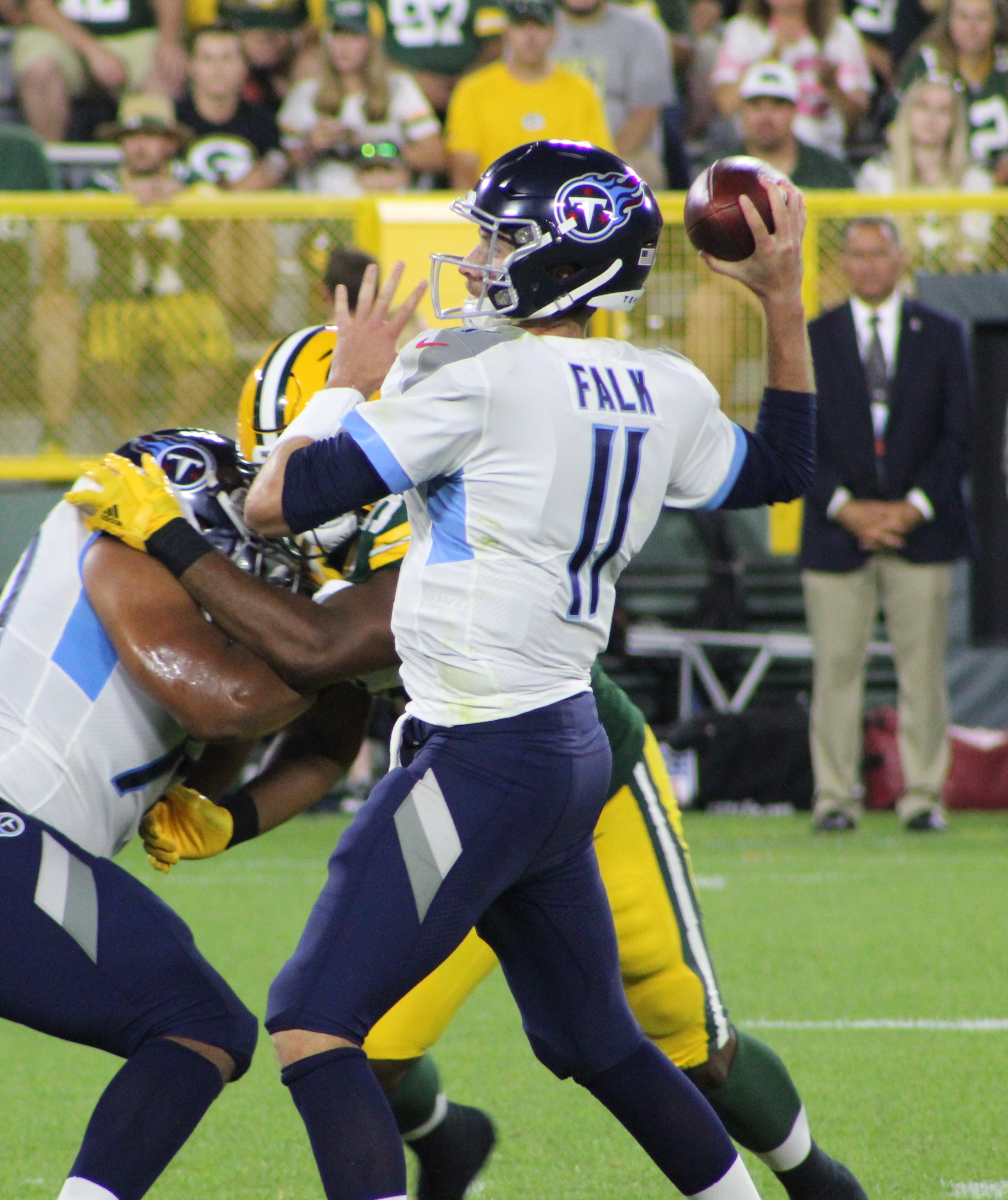 Luke Falk, Tennessee Titans at Green Bay Packers (Preseason), August 9, 2018